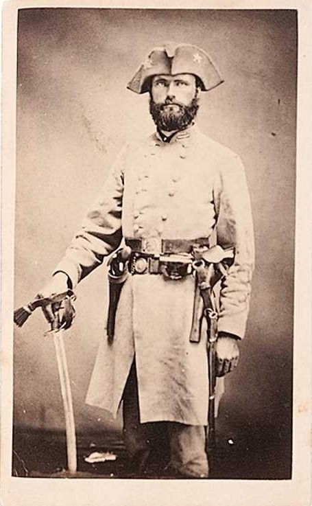 Carte-de-Visite of Brig. Gen. Richard Montgomery Gano.